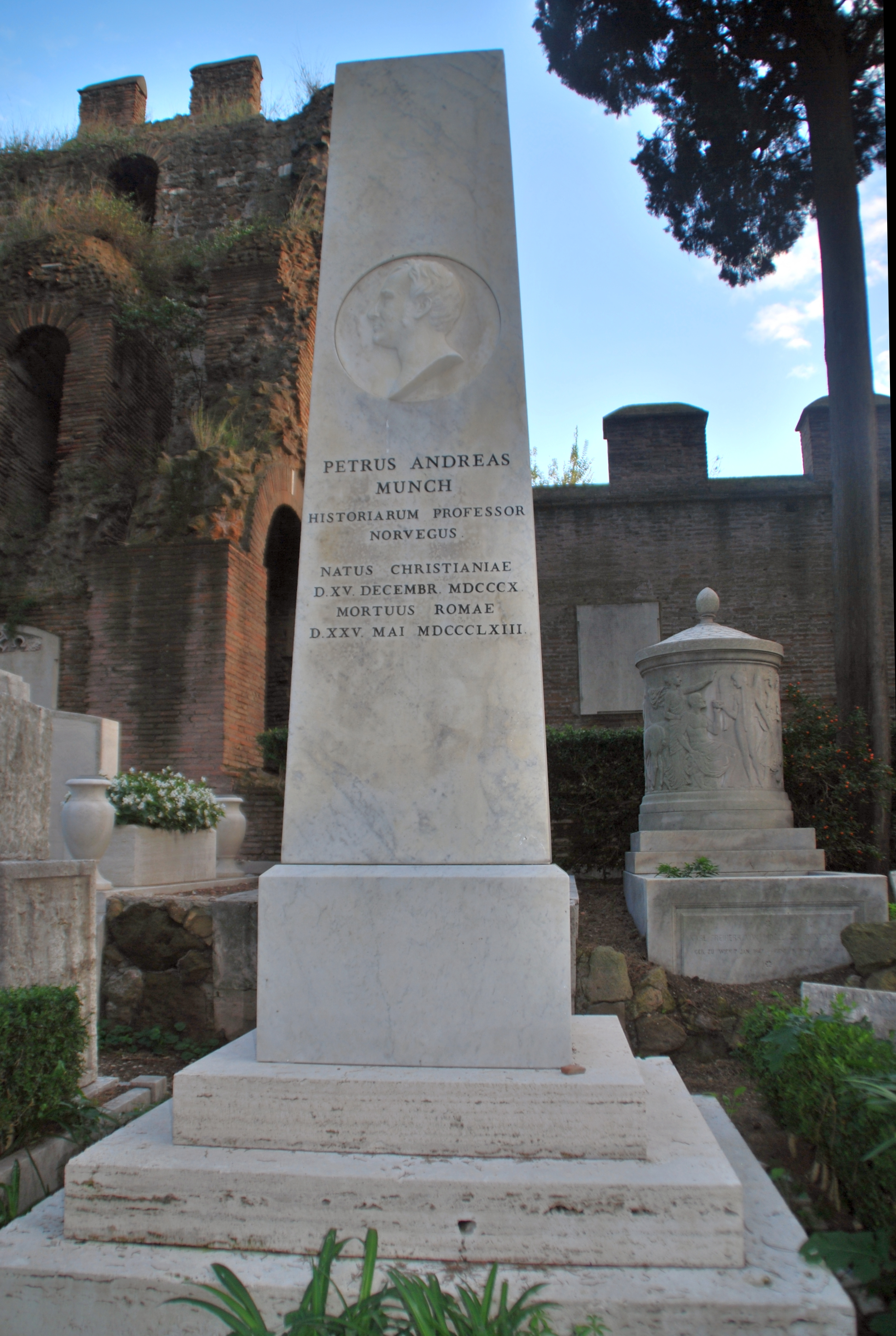 Grave of Peter Andreas Munch at the Cimitero acattolico at Rome.